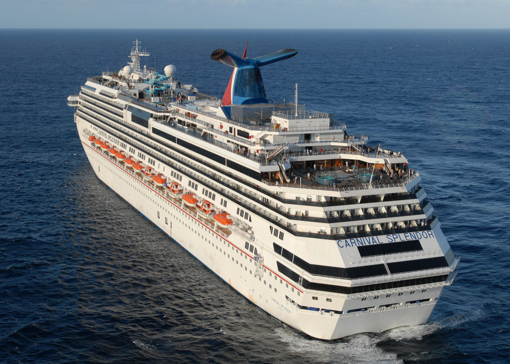 PACIFIC OCEAN (Nov. 9, 2010) The Carnival cruise ship C/V Splendor sits adrift approximately 150 nautical miles southwest of San Diego. The ship lost propulsion and electrical power following an engine room fire. The aircraft carrier USS Ronald Reagan (CVN 76) was diverted from its current training maneuvers at the direction of Commander U.S. Third Fleet, and at the request of the U.S. Coast Guard, to facilitate the delivery of 4,500 pounds of supplies to the cruise ship. (U.S. Navy photo by Mass Communication Specialist 3rd Class Dylan McCord/Released)